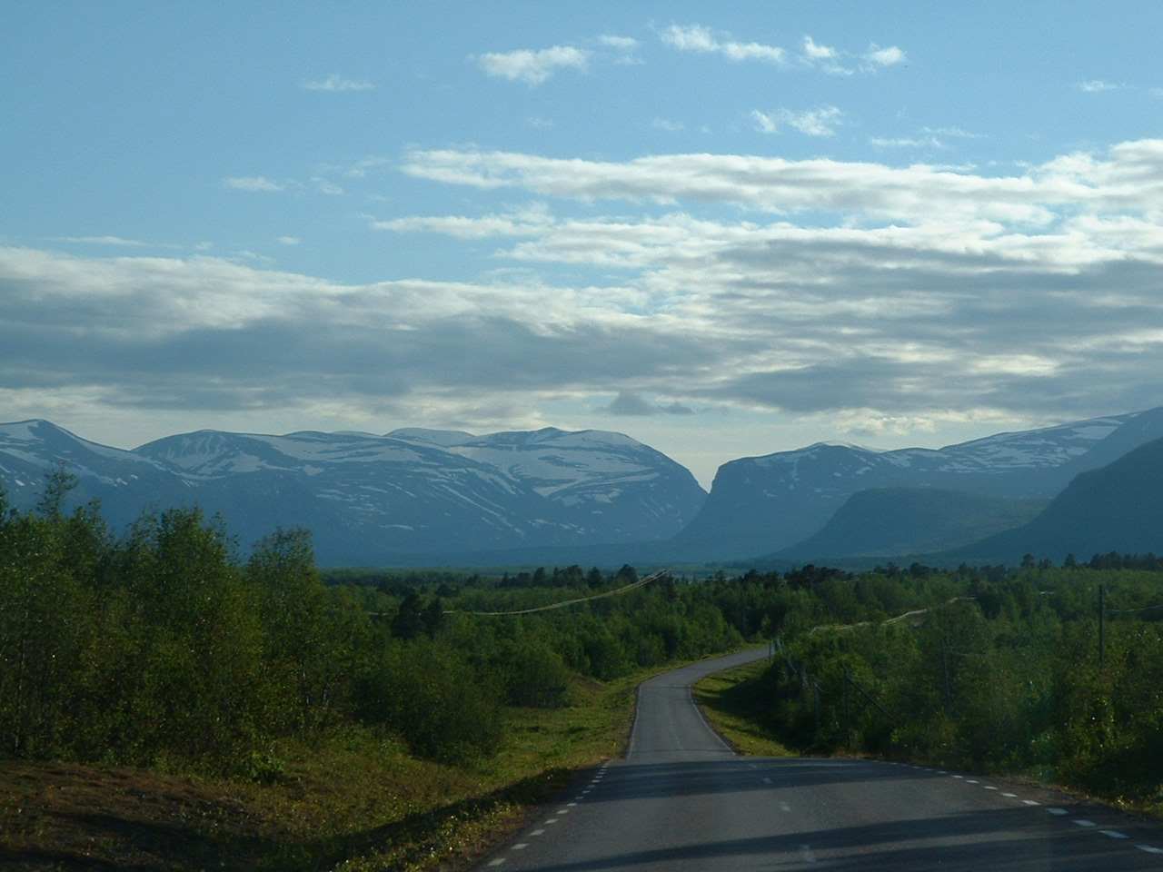 View towards Nikkaluokta and the surrounding mountains.